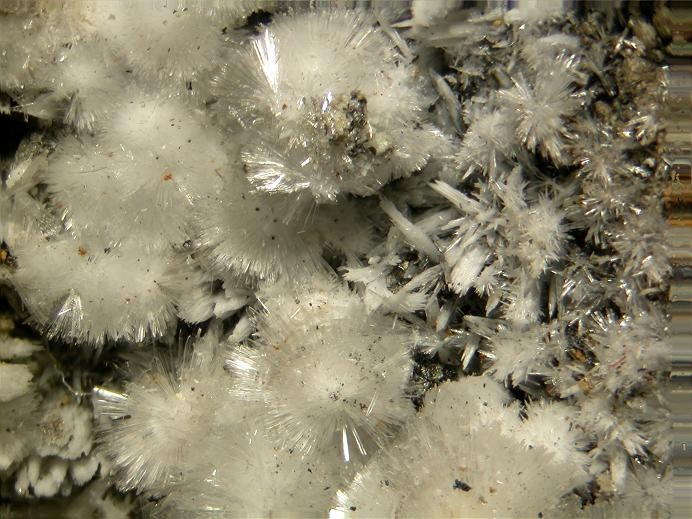 Vladimirite Locality: Aït Ahmane, Bou Azzer District, Tazenakht, Ouarzazate Province, Souss-Massa-Draâ Region, Morocco (Locality at ) Field of view 11 mm. Depth of field is achieved with CombineZM. Specimen and photo Leon Hupperichs.